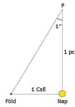 Hungarian translation of the spanish figure. Original MADE by Inkscape.